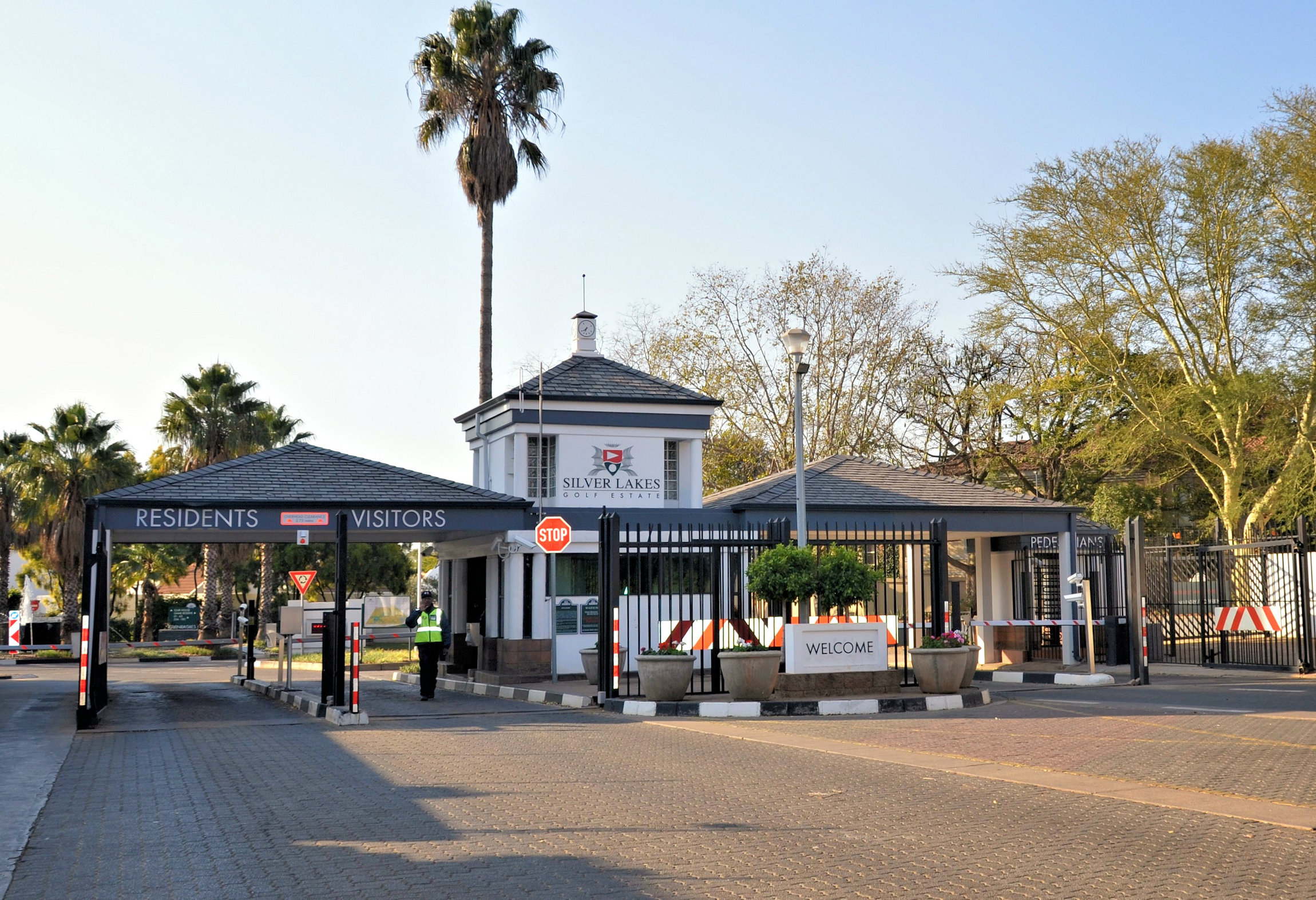 The entrance to Silver Lakes Golf Estate in Pretoria